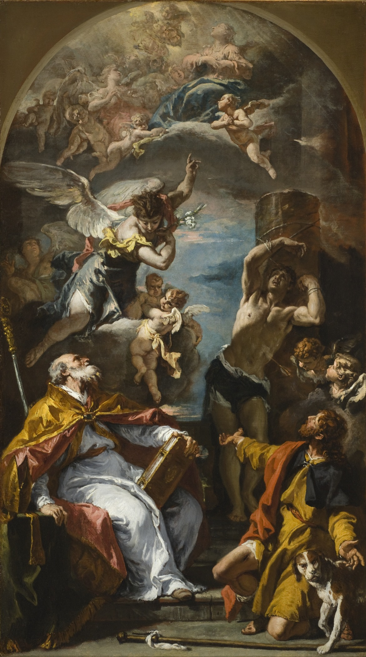 Paintings European Painting